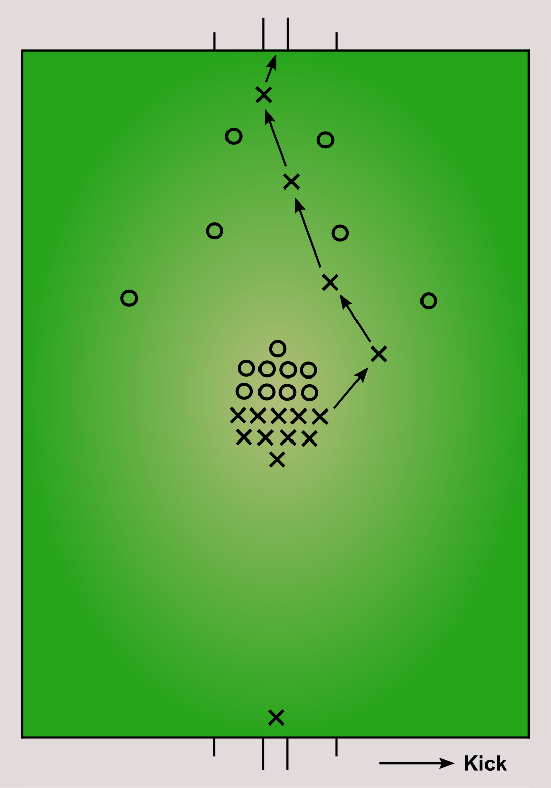 Diagram of an early Australian rules football tactical manoeuvre performed by Tom Wills, captaining Richmond against the Melbourne Football Club on the Richmond Paddock, Melbourne, 30 June 1860. Based on a diagram published in: Coventry, James (2015). Time and Space: The Tactics That Shaped Australian Rules and the Players and Coaches Who Mastered Them. HarperCollins. ISBN 978-0-7333-3369-9. p. 8.